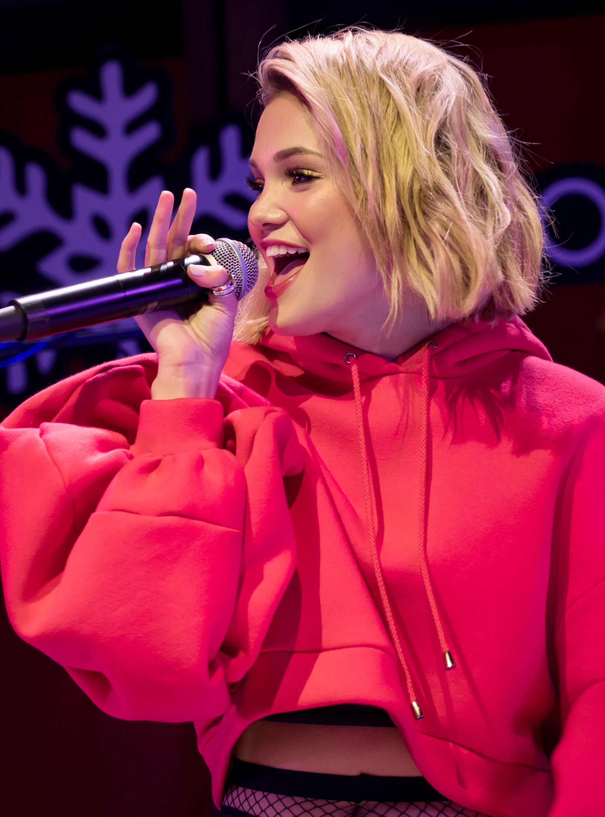 Olivia Holt at Westfield Century City